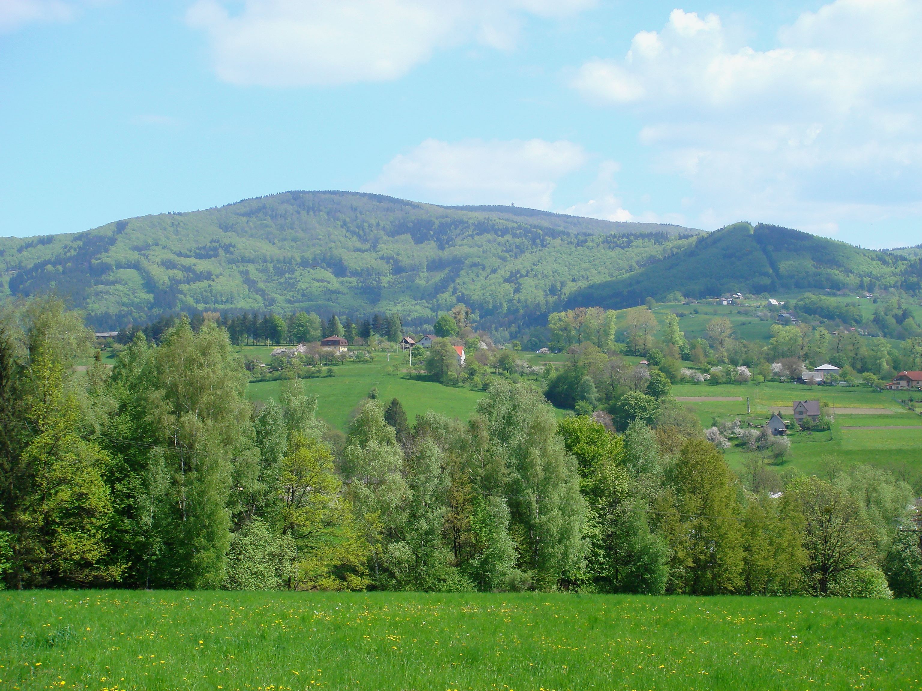 Part of the Čantoryje/Czantoria Range with the Great Čantoryje/Czantoria as viewed from above Nýdek (Moravian-Silesian Region, Czech Republic).